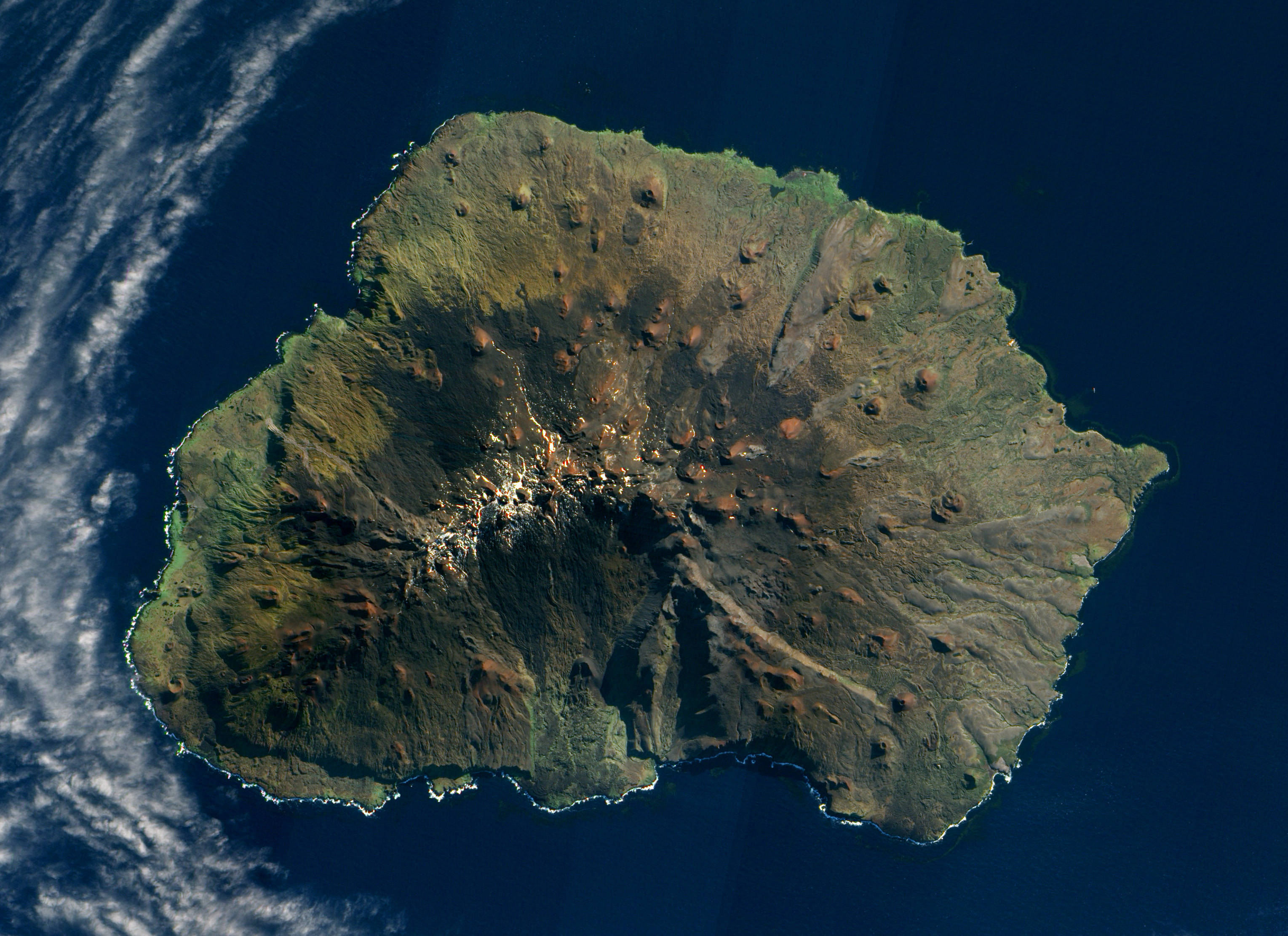 Satellite image of South Africa's Marion Island. Original NASA caption, for a version similarly cropped to show just Marion Island: "A dusting of ice graced the summit of Marion Island in early May 2009 as waves breaking against the island’s shore formed a broken perimeter of white. Like its smaller neighbor, Prince Edward Island, Marion Island is volcanic, rising above the waves of the Indian Ocean off the southern coast of Africa. Prince Edward and Marion are part of South Africa’s Western Cape Province. (Both islands appear in the large image.) "The Advanced Land Imager (ALI) on NASA’s Earth Observing-1 (EO-1) satellite acquired this natural-color image on May 5, 2009. Sunlight illuminates the northern slopes of the volcanic island, leaving southern slopes in shadow. More than 100 small, reddish volcanic cones dot the island, some of the most conspicuous in the north and east. The island reaches its highest elevation, 1,230 meters (4,040 feet), near the center. Vegetation is generally sparse on Marion Island. Lichens live near the summit, and mosses and ferns grow elsewhere on the boggy surface, but trees don’t grow on the island. "Occurring at the juncture between the African Continental Plate and the Antarctic Plate, Marion Island has been volcanically active for 18,000 years. The first historical eruption was recorded in November 1980 when researchers recorded two new volcanic hills and three lava flows. Researchers observed another small eruption in 2004. "Besides volcanic cones, Marion Island is home to Marion Base, part of the South African National Antarctic Programme. Focusing on biological, environmental, and meteorological research, the base is situated on the island’s northeastern coast."